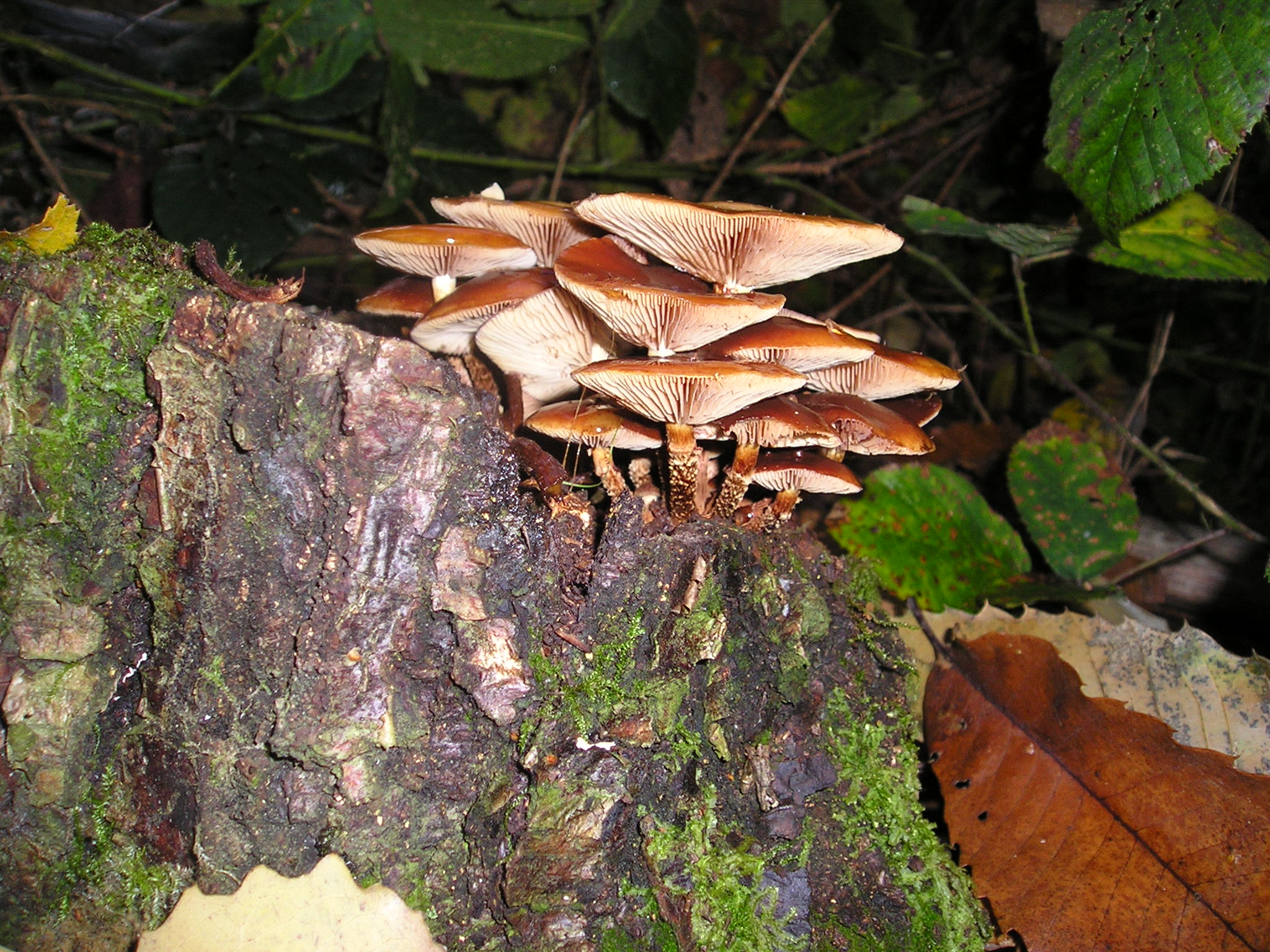 Kuehneromyces mutabilis in a French wood.